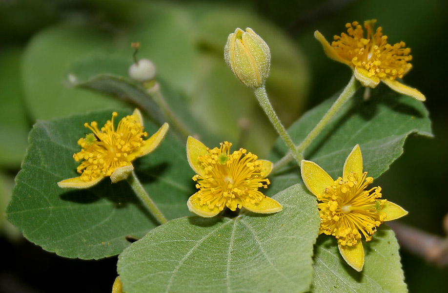 Grewia tiliifolia - Dhaman • Hindi: Dhamani • Tamil: Unu • Malayalam: Unnam • Telugu: Cahrachi • Kannada: Todsal • Bengali: Dhamin • Sanskrit: धनु व्रिक्ष Dhanu vriksha in Hyderabad, India.